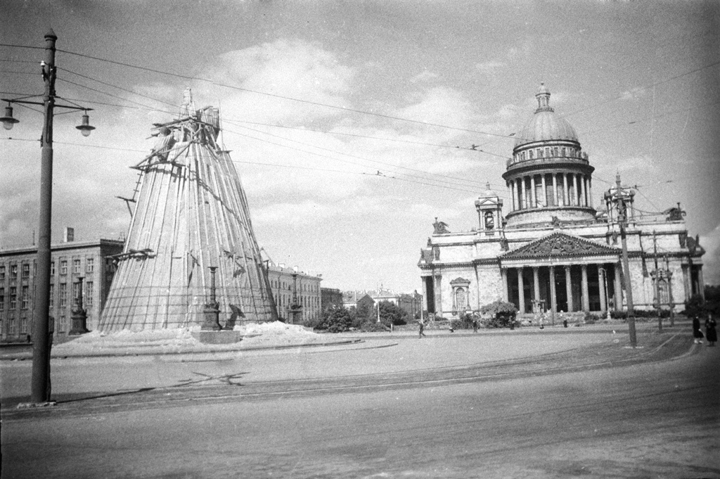 “St. Isaac's Cathedral in Leningrad in 1942”. St. Isaac's Cathedral and St. Isaac's Square in Leningrad in 1942 during the 1941-1945 Great Patriotic War against Nazi Germany.